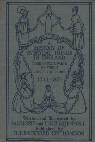 Book cover: "A HISTORY OF EVERYDAY THINGS IN ENGLAND, DONE IN FOUR PARTS OF WHICH THIS IS THE THIRD, 1733 - 1851, Written and Illustrated by MARJORIE and C.H.B. QUENNELL, Published by B.T. BATSFORD Ltd. LONDON"